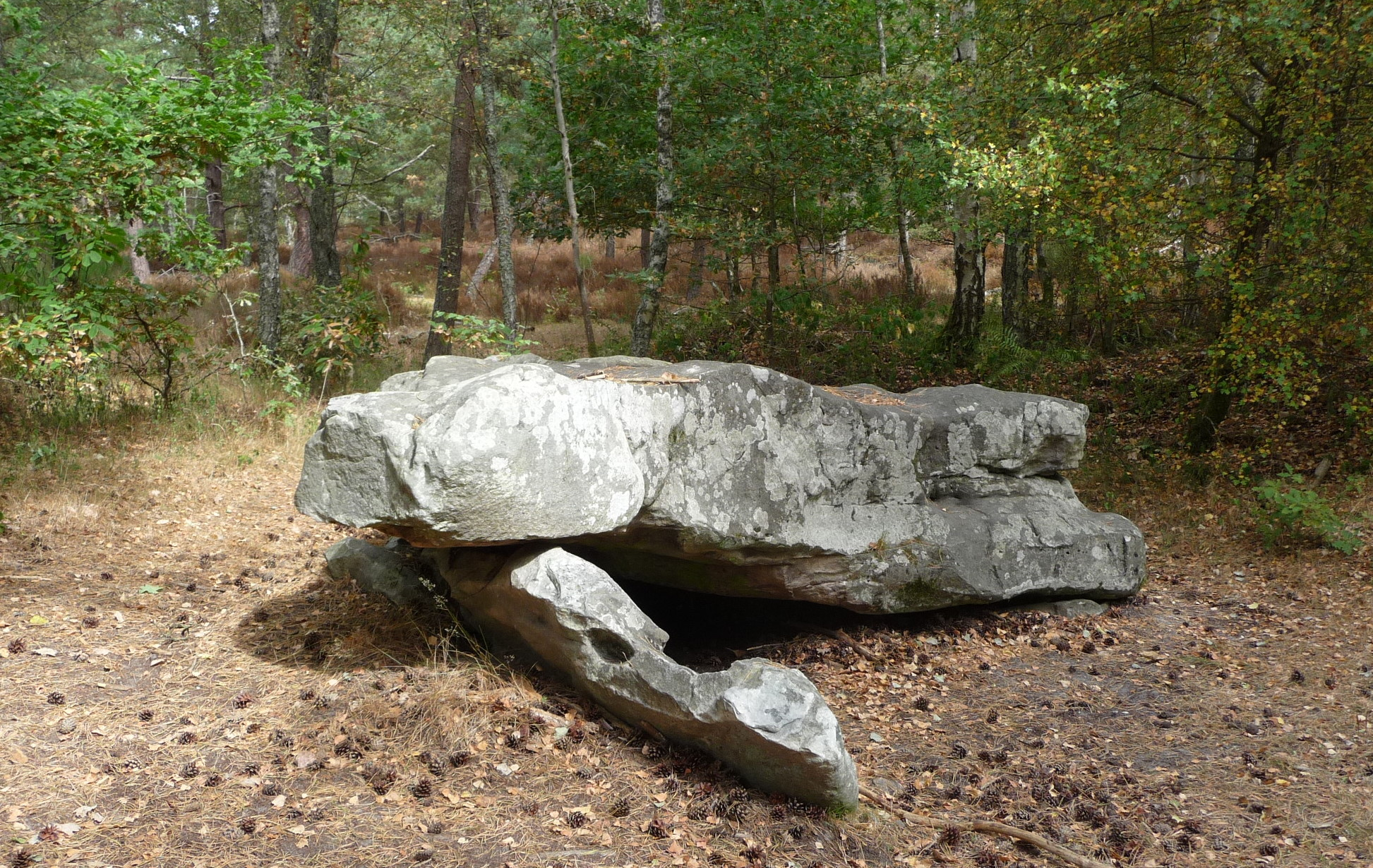 Neolithic dolmen, saint léger-en-Yvelines, forest of Rambouillet